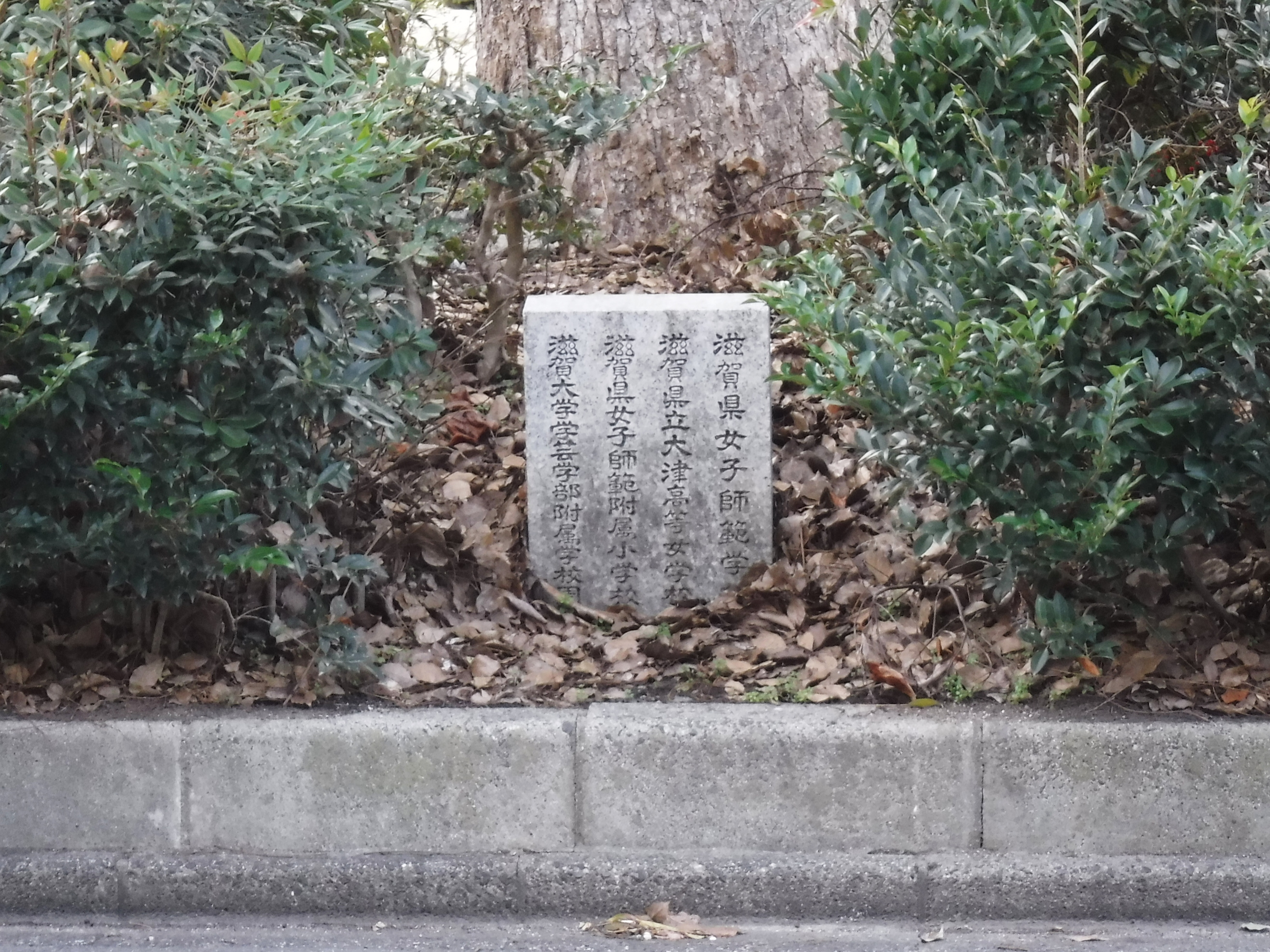 Memorial of Shiga Prefectural Girls' Normal School, one of the predecessors of Shiga University, located in Otsu, Shiga, Japan.